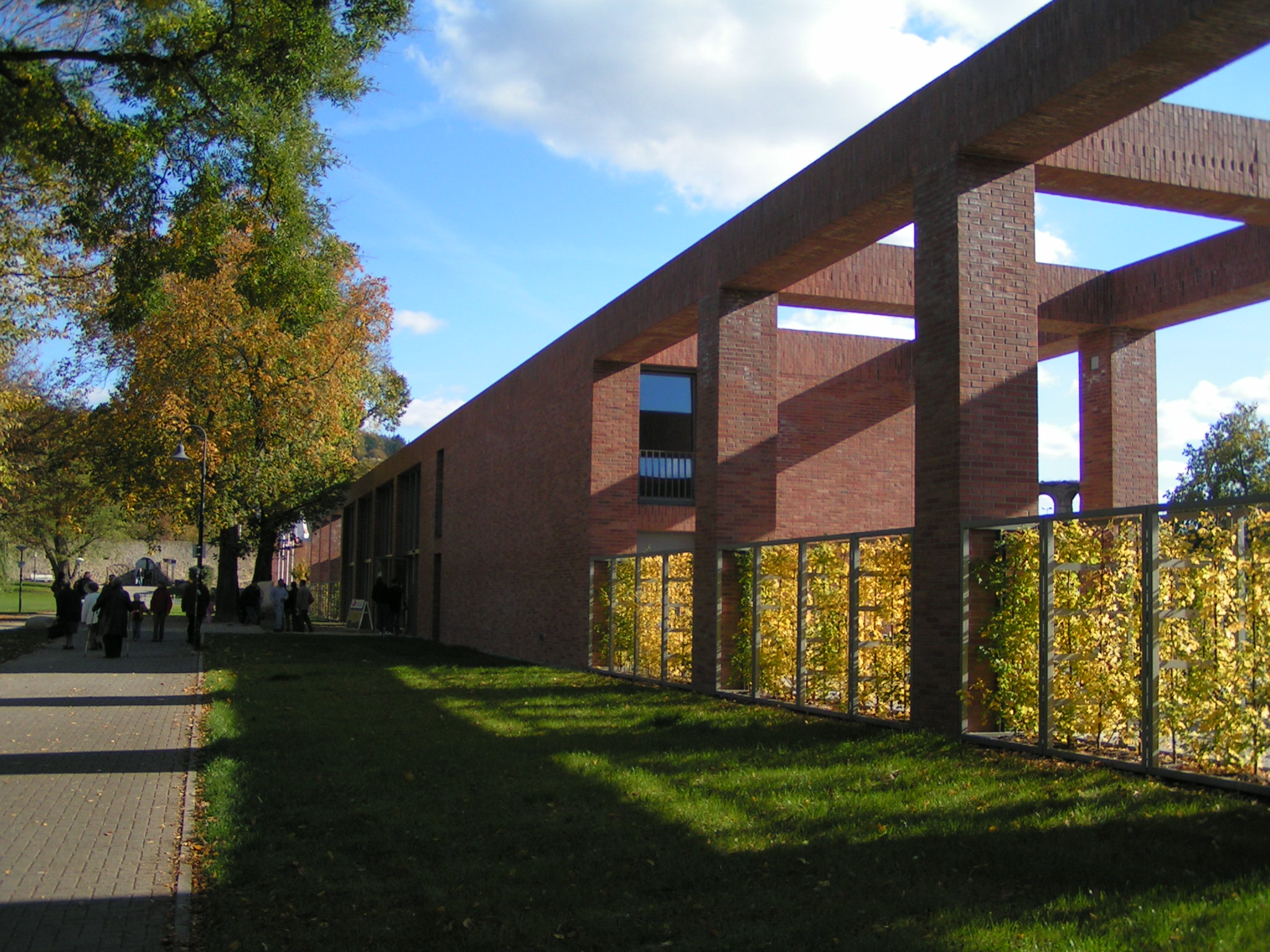 Kaiserthermen Trier, Germany